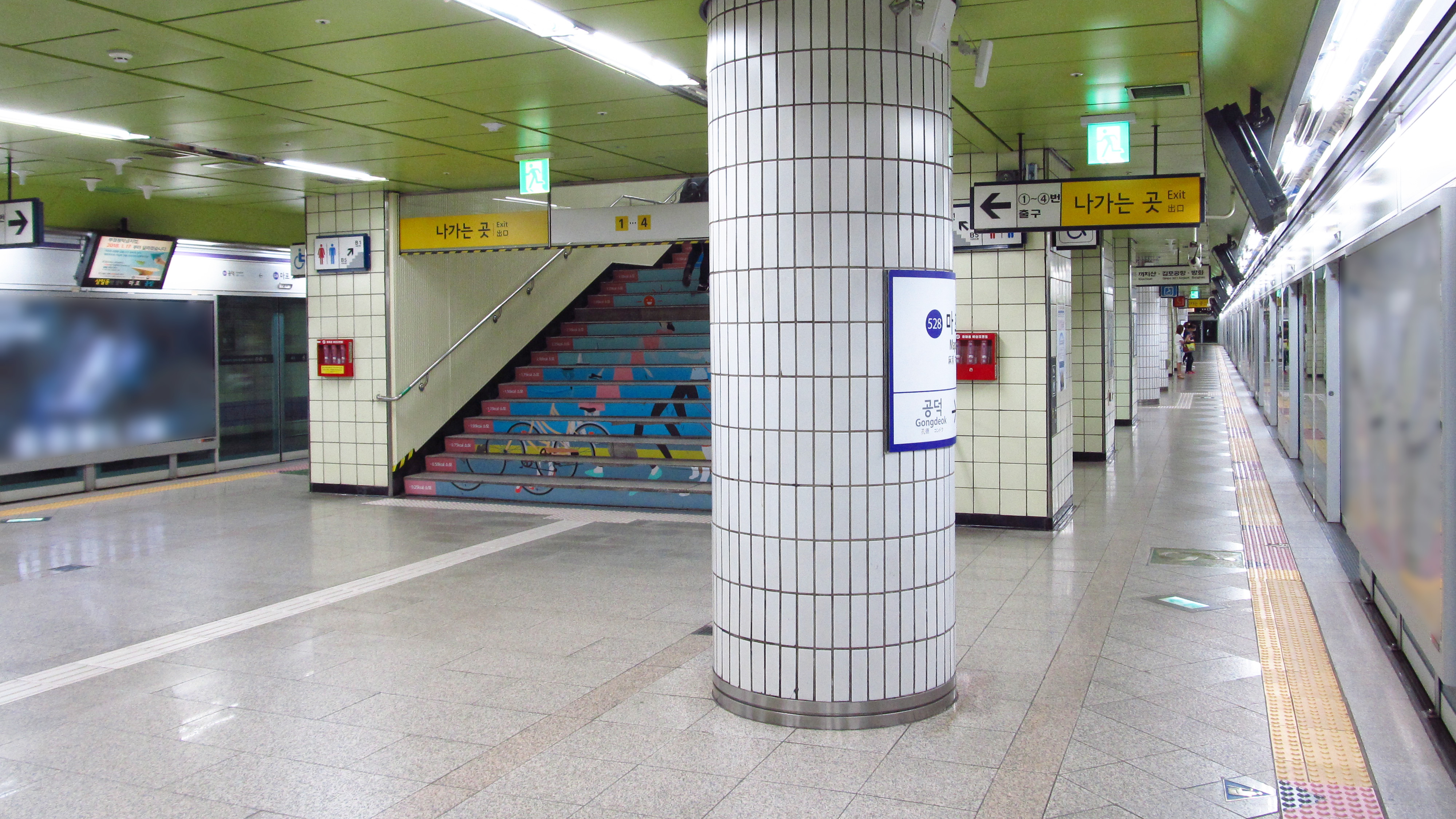 The platform at Mapo Station on Seoul Subway Line 5 in Mapo-gu, Seoul, Republic of Korea(South Korea)